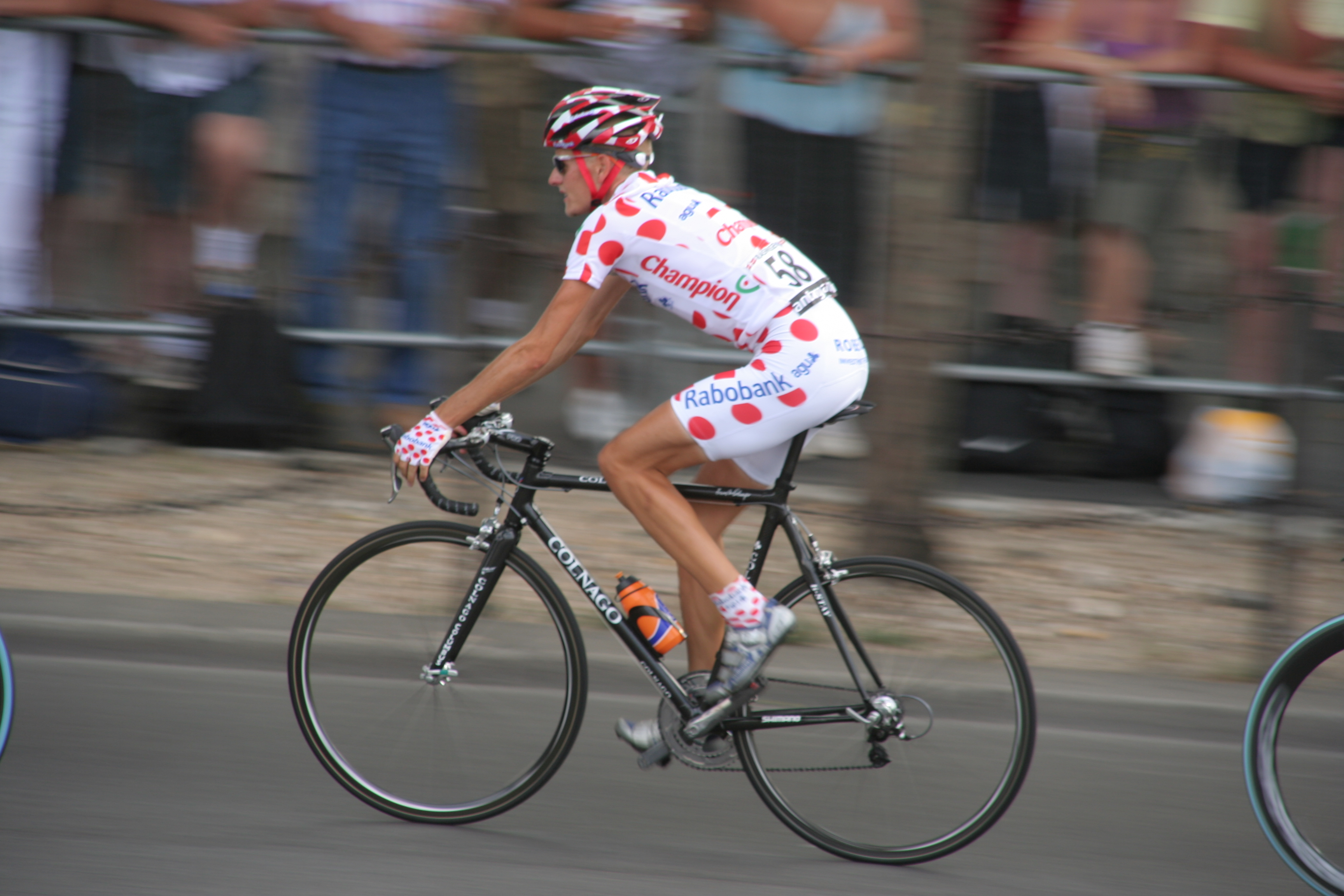 Michael Rasmussen in the King of Mountains jersey. Tour de France 2006.